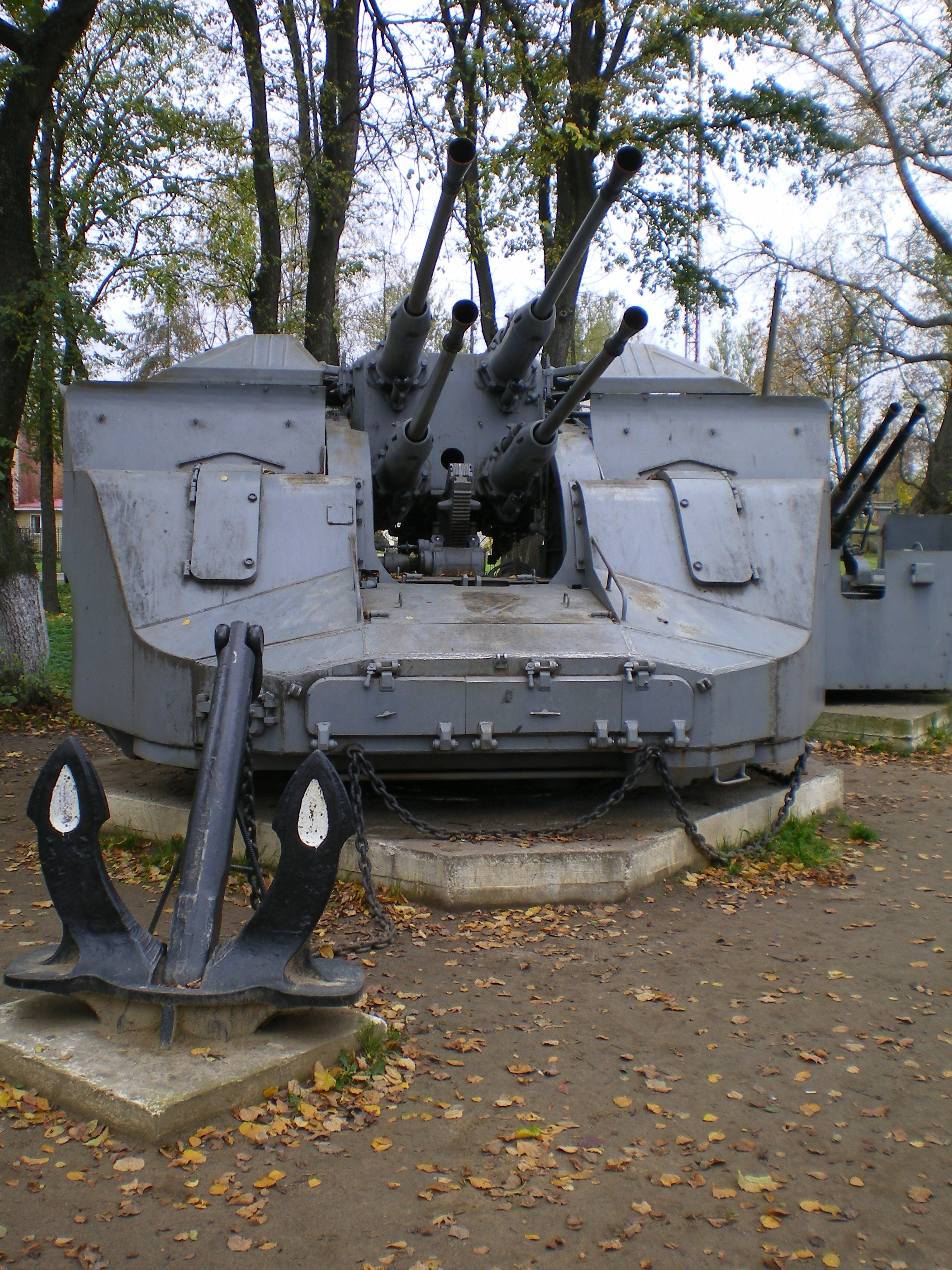 A Soviet SM-20-ZiF naval AA gun in "Echo of great battles" non-commercial museum, Shlisselburg.